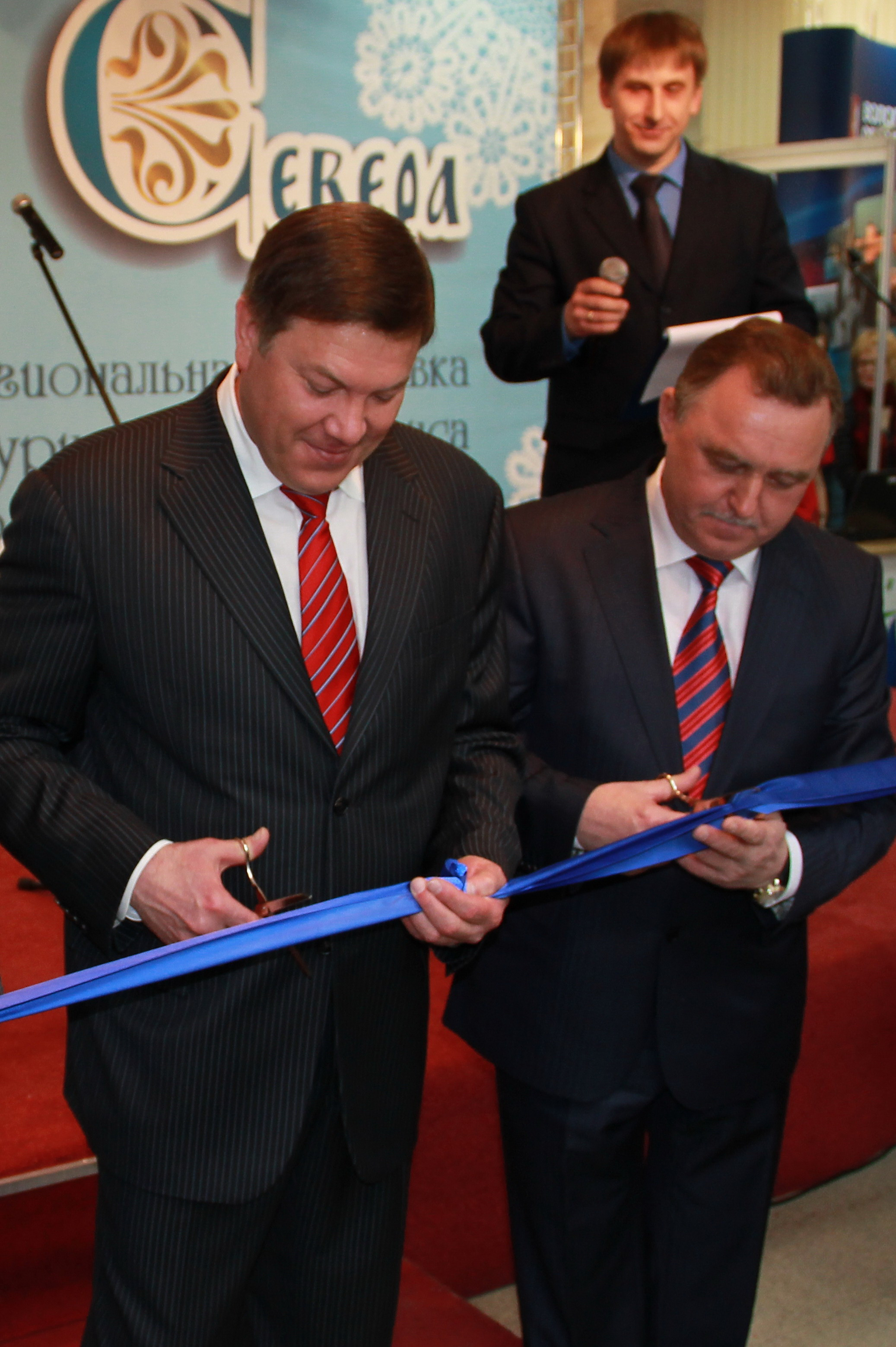 Russia, Vologda, The governor of the Vologda region Oleg Kuvshinnikov and Head of Vologda city Evgeny Shulepov open the exhibition "Gates to the North"